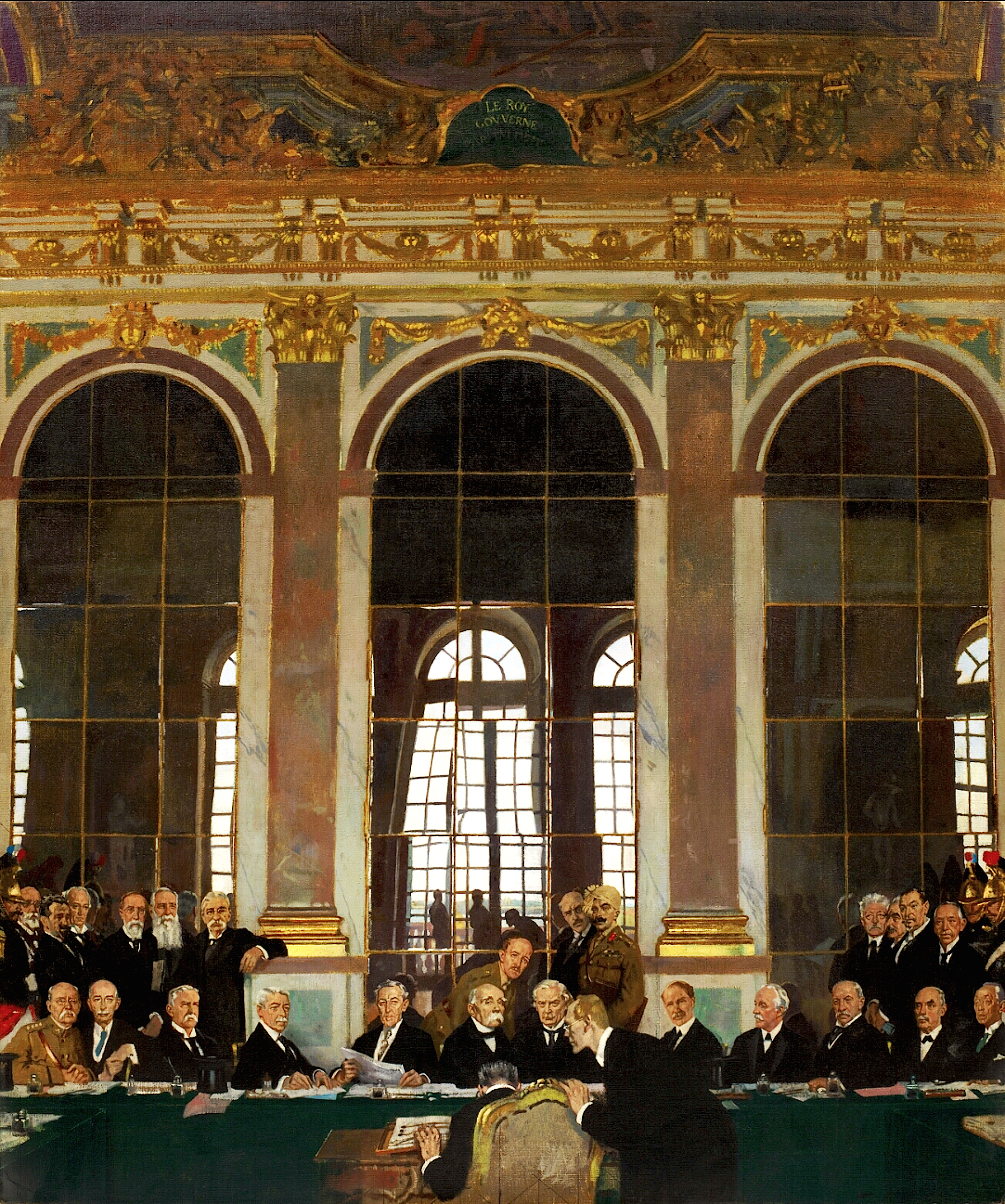 A view of the interior of the Hall of Mirrors at Versailles, with the heads of state sitting and standing before a long table. Front Row: Dr Johannes Bell (Germany) signing with Herr Hermann Muller leaning over him. Middle row (seated, left to right): General Tasker H Bliss, Col E M House, Mr Henry White, Mr Robert Lansing, President Woodrow Wilson (United States); M Georges Clemenceau (France); Mr D Lloyd George, Mr A Bonar Law, Mr Arthur J Balfour, Viscount Milner, Mr G N Barnes (Great Britain); The Marquis Saionzi (Japan). Back row (left to right): M Eleutherios Venizelos (Greece); Dr Affonso Costa (Portugal); Lord Riddell (British Press); Sir George E Foster (Canada); M Nikola Pachitch (Serbia); M Stephen Pichon (France); Col Sir Maurice Hankey, Mr Edwin S Montagu (Great Britain); the Maharajah of Bikaner (India); Signor Vittorio Emanuele Orlando (Italy); M Paul Hymans (Belgium); General Louis Botha (South Africa); Mr W M Hughes (Australia). Note: This description was copied verbatim from the Imperial War Museum exhibit, where some names differ from their official spelling (Muller vs Müller, Eleutherios vs Eleftherios, Affonso vs Afonso, Saionzi vs Saionji, Pachitch vs Pašić, Stephen vs Stéphen). We keep the original text for historical accuracy.